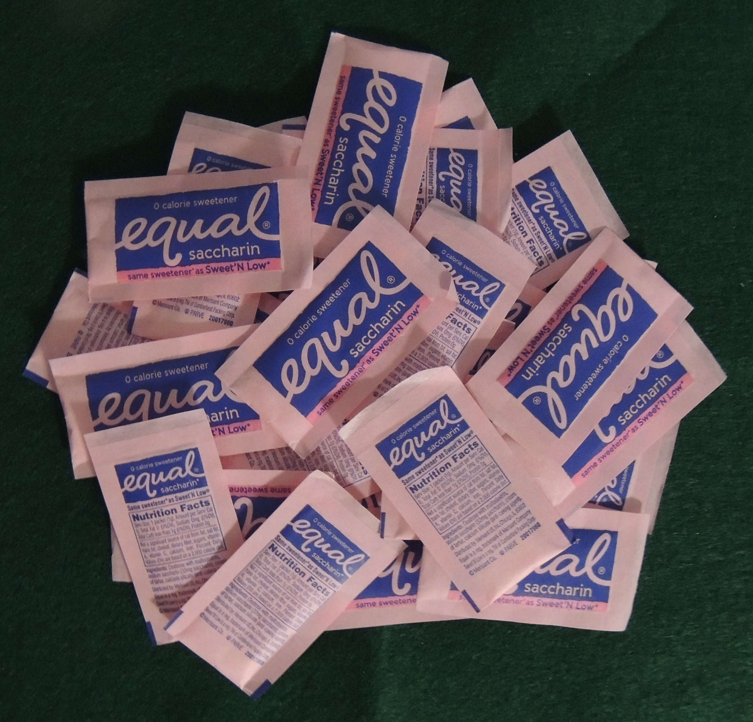 Equal saccharin artificial sweetener ~ Merisant Company manufacturer of sugar substitutes